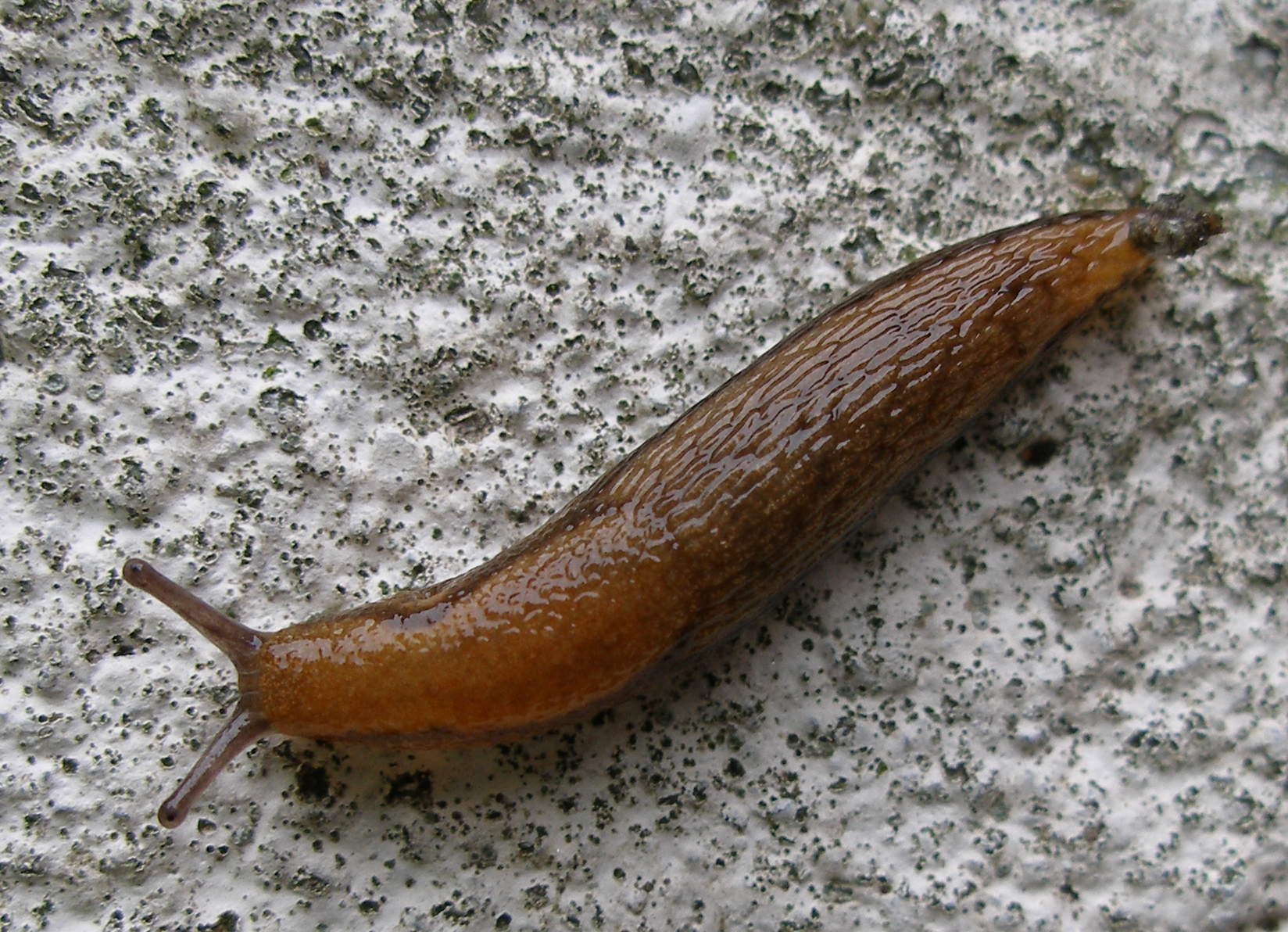 Living brown Slug on painted brick wall. Picture taken in Leikanger, Sogn og fjordane, Norway.